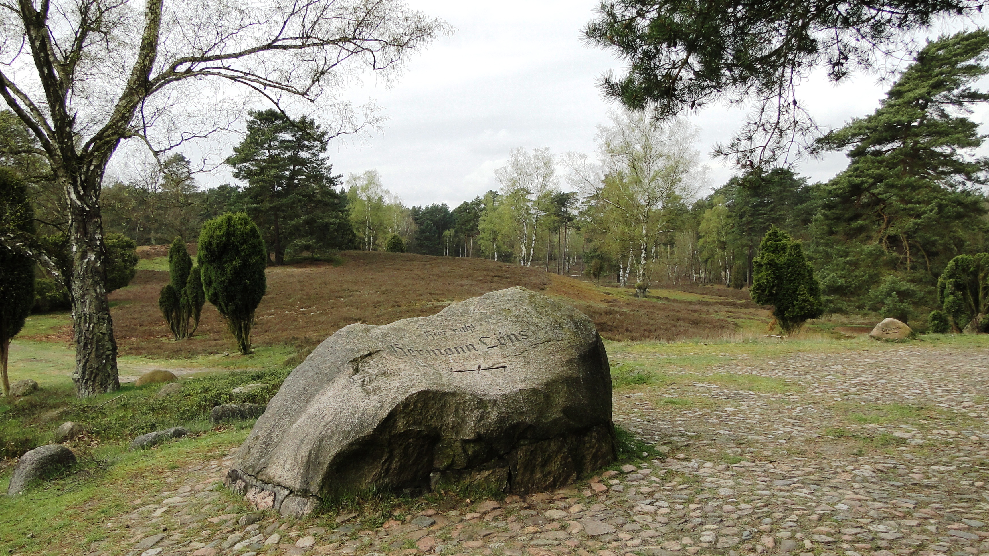 the boulder marking the spot near Walsrode where the purported remains of Herman Löns were buried in 1935